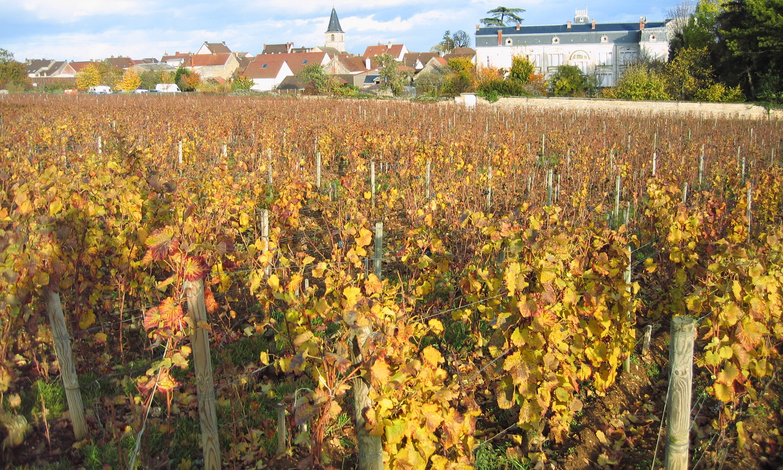 The southeastern part of the Romanée-Saint-Vivant vineyard, bordering on La Grande Rue and the village of Vosne-Romanée